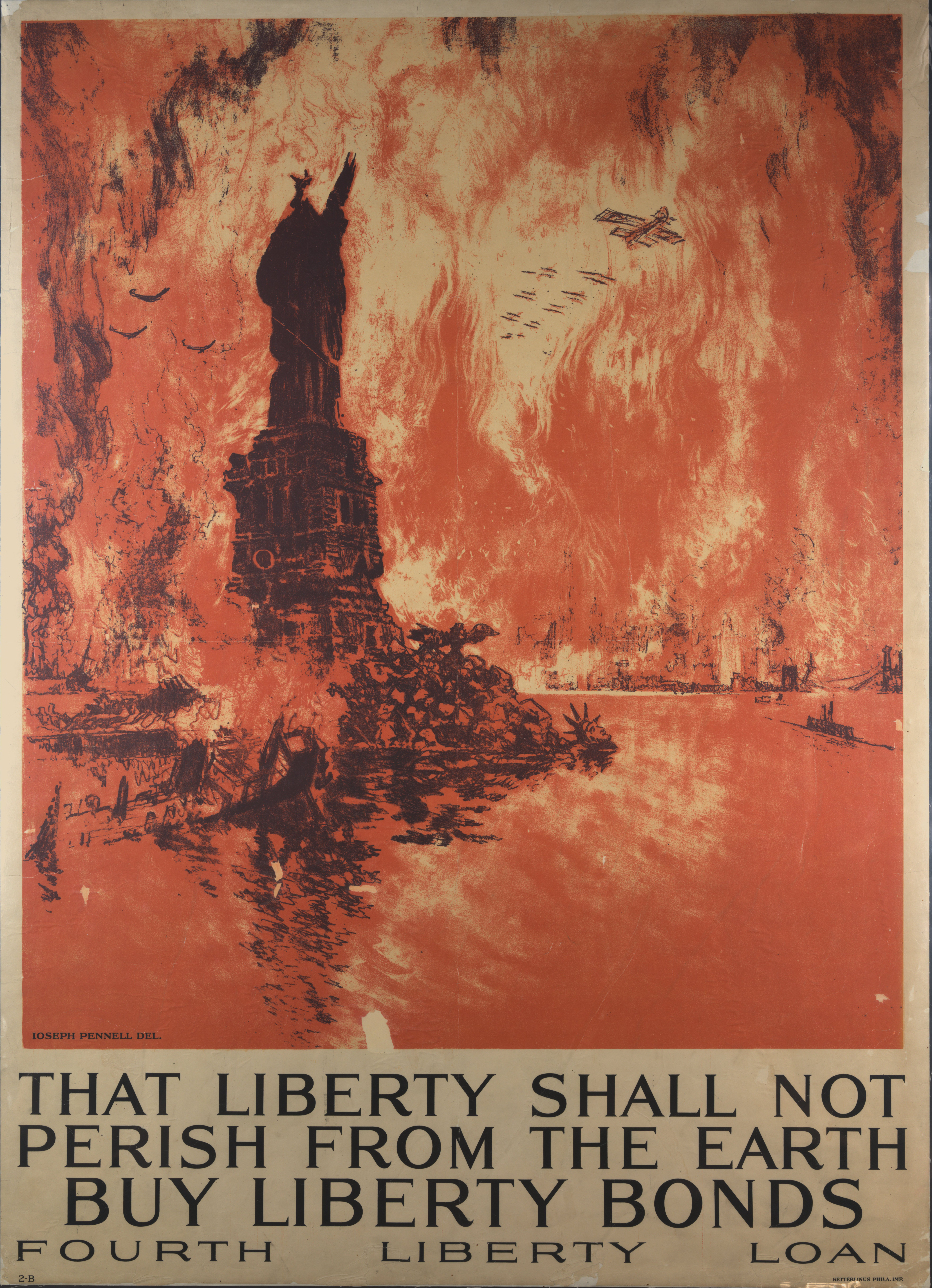 That liberty shall not perish from the earth - Buy liberty bonds Fourth Liberty Loan / Ioseph Pennell del. ; Ketterlinus Phila. imp. Print (poster): lithograph, color; 104×75 cm. Poster showing the Statue of Liberty in ruins, and the New York skyline in flames.